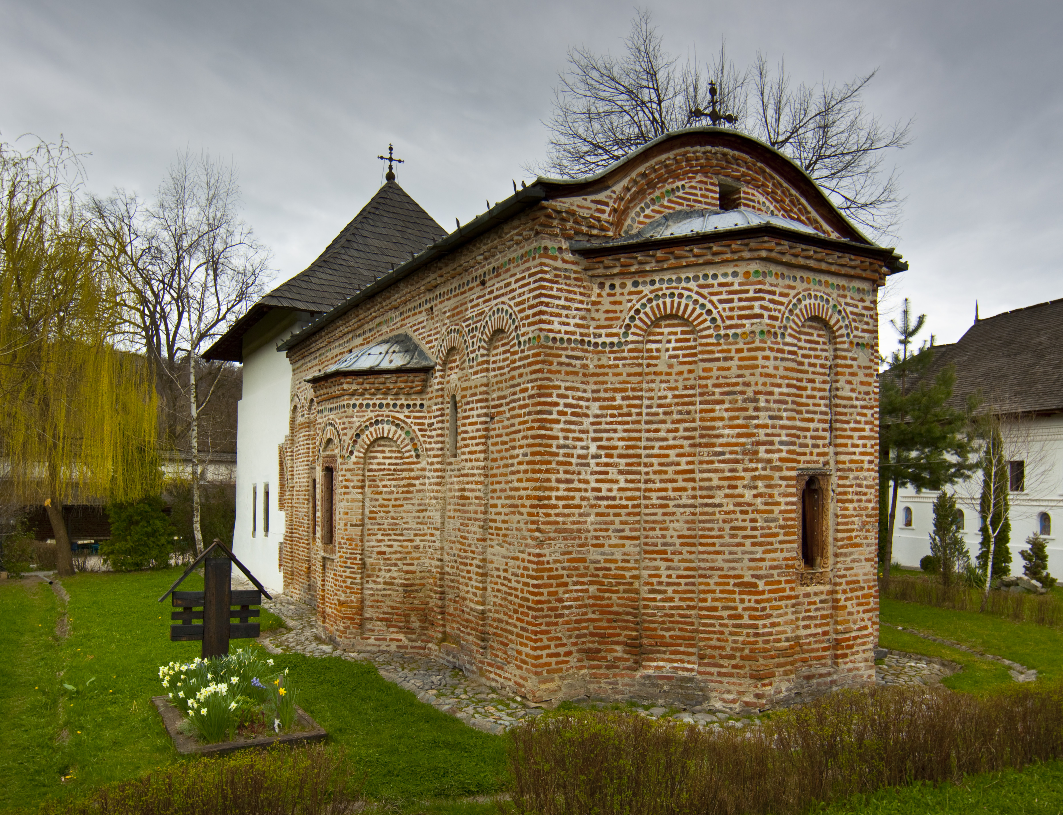 Cotmeana Monastery, Romania: Buna Vestire church.